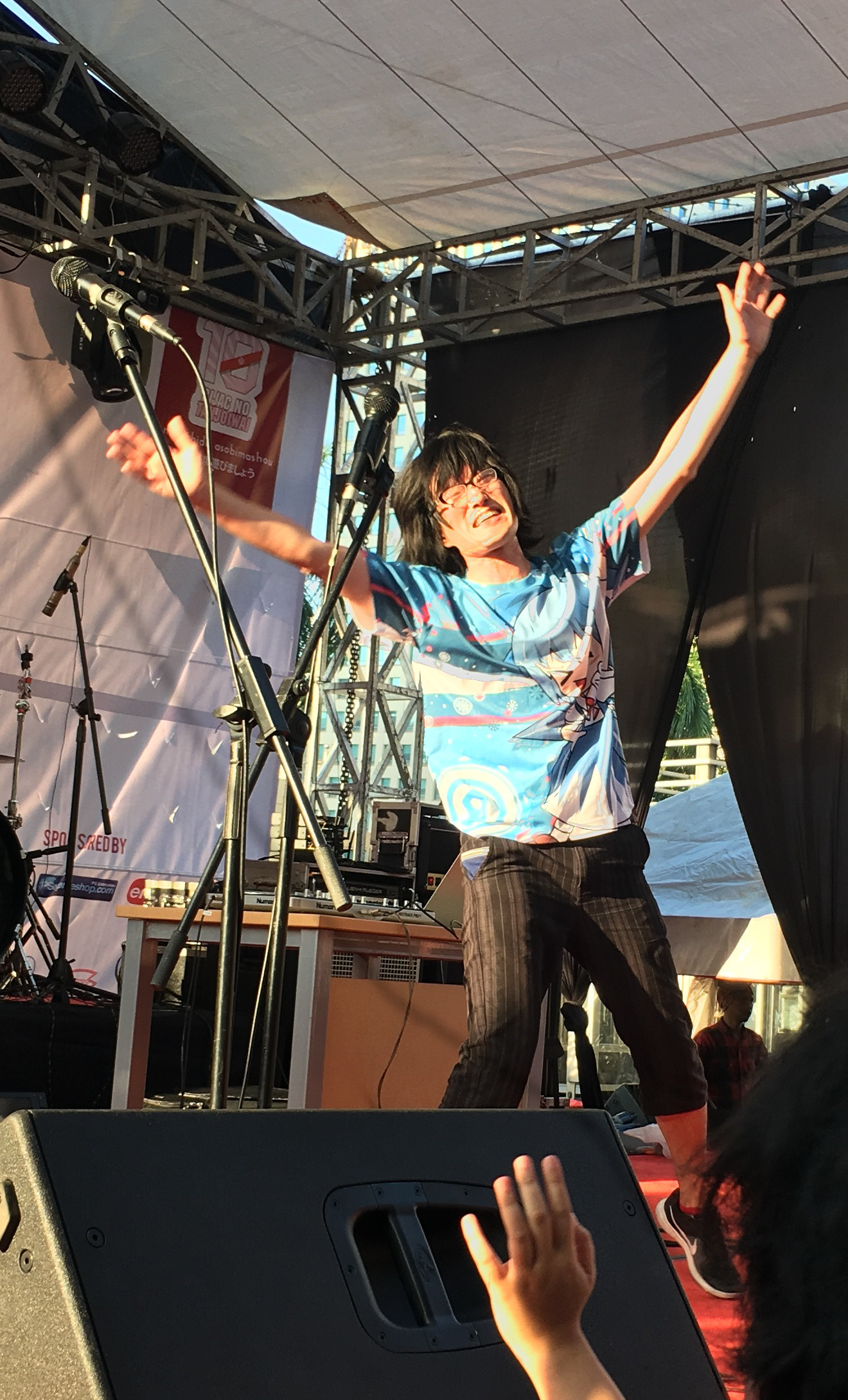 ARM from IOSYS performing in BIJAC 2017